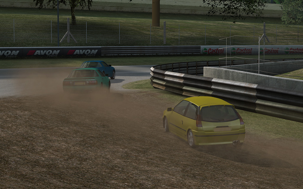 Rallycross at Blackwood.